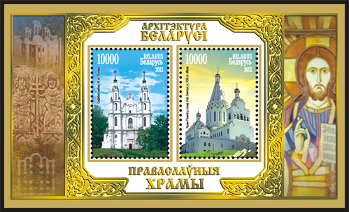 Stamp of Belarus